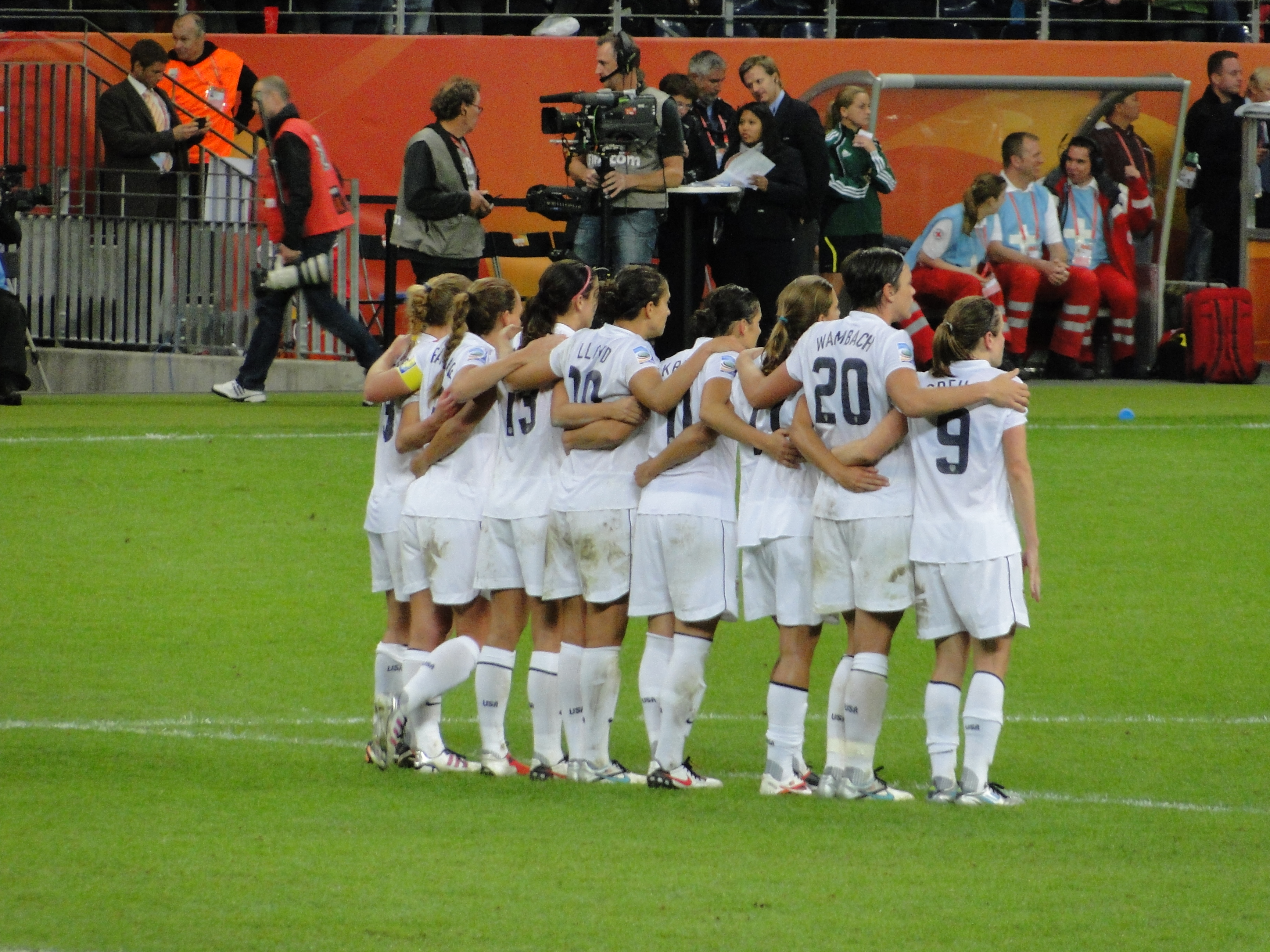 USA players watch the penalty shoot-out.